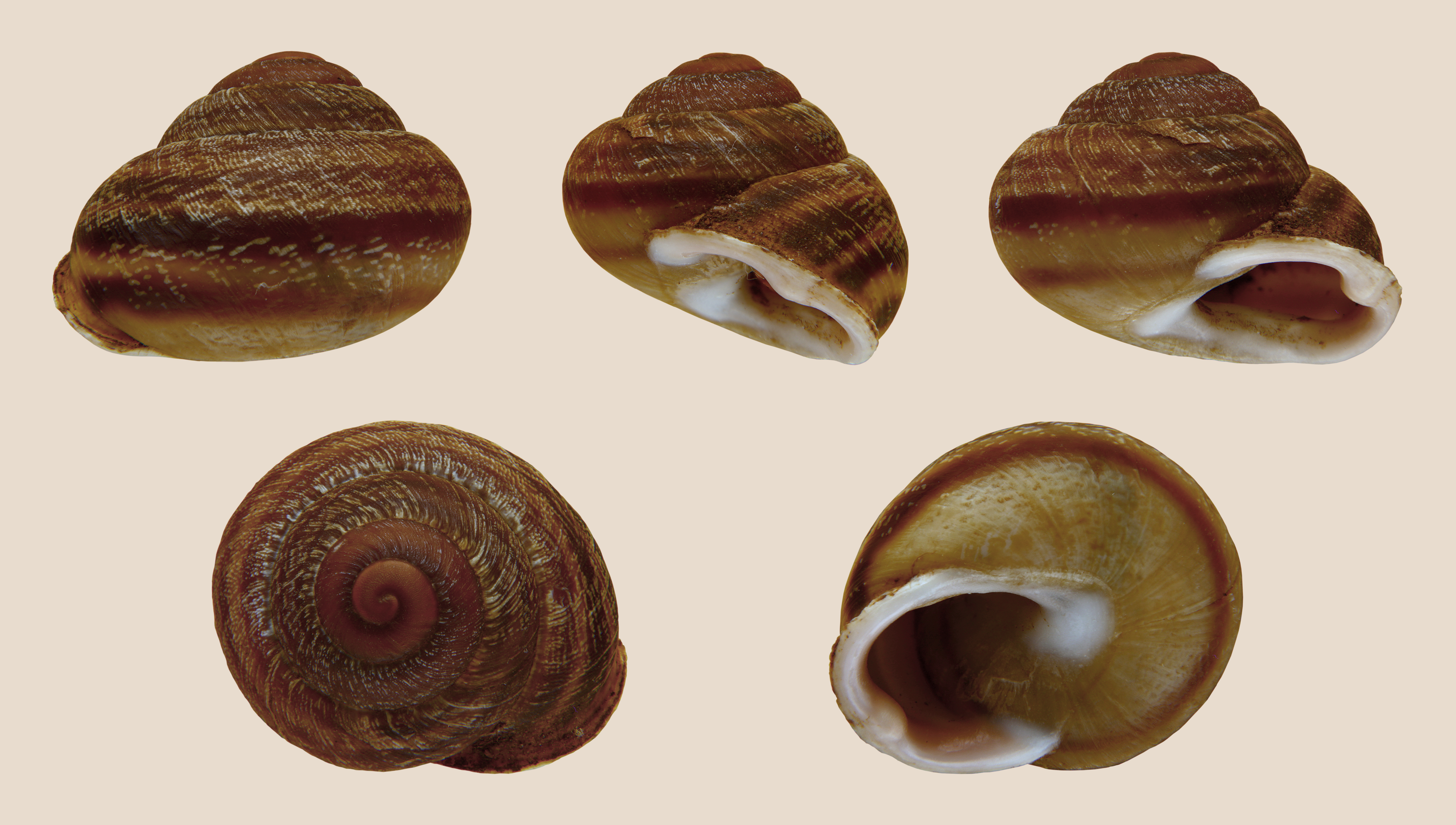 Diameter 2 cm; Originating from the Barranco de Guayadeque, Gran Canaria, Canary Islands, Spain, 27°56′0.56″N 15°28′13.45″W / 27.9334889°N 15.4704028°W; Shell of own collection, therefore not geocoded.